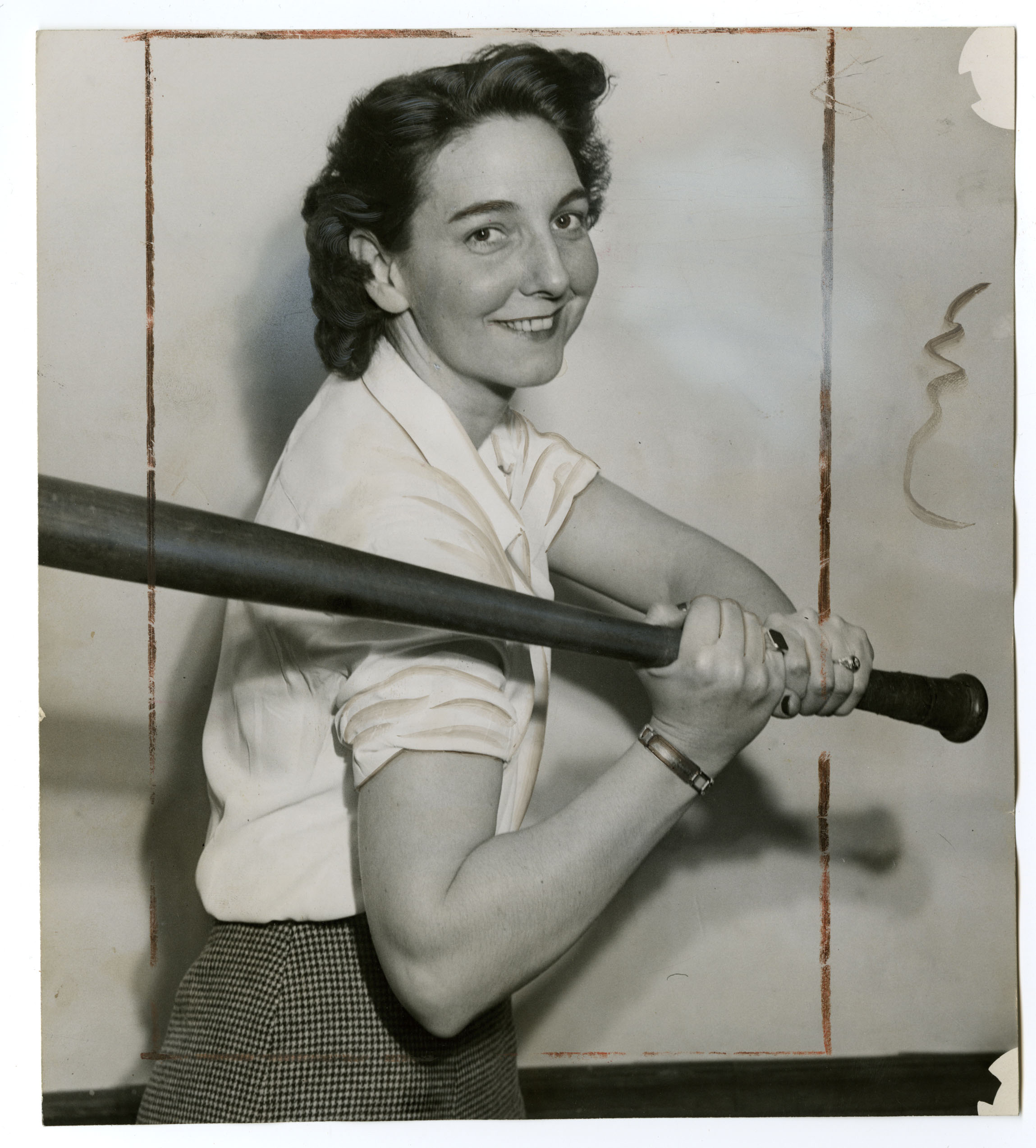 Women baseball player, Edith Houghton, in 1946, after being signed as a baseball scout by the Philadelphia Phillies.